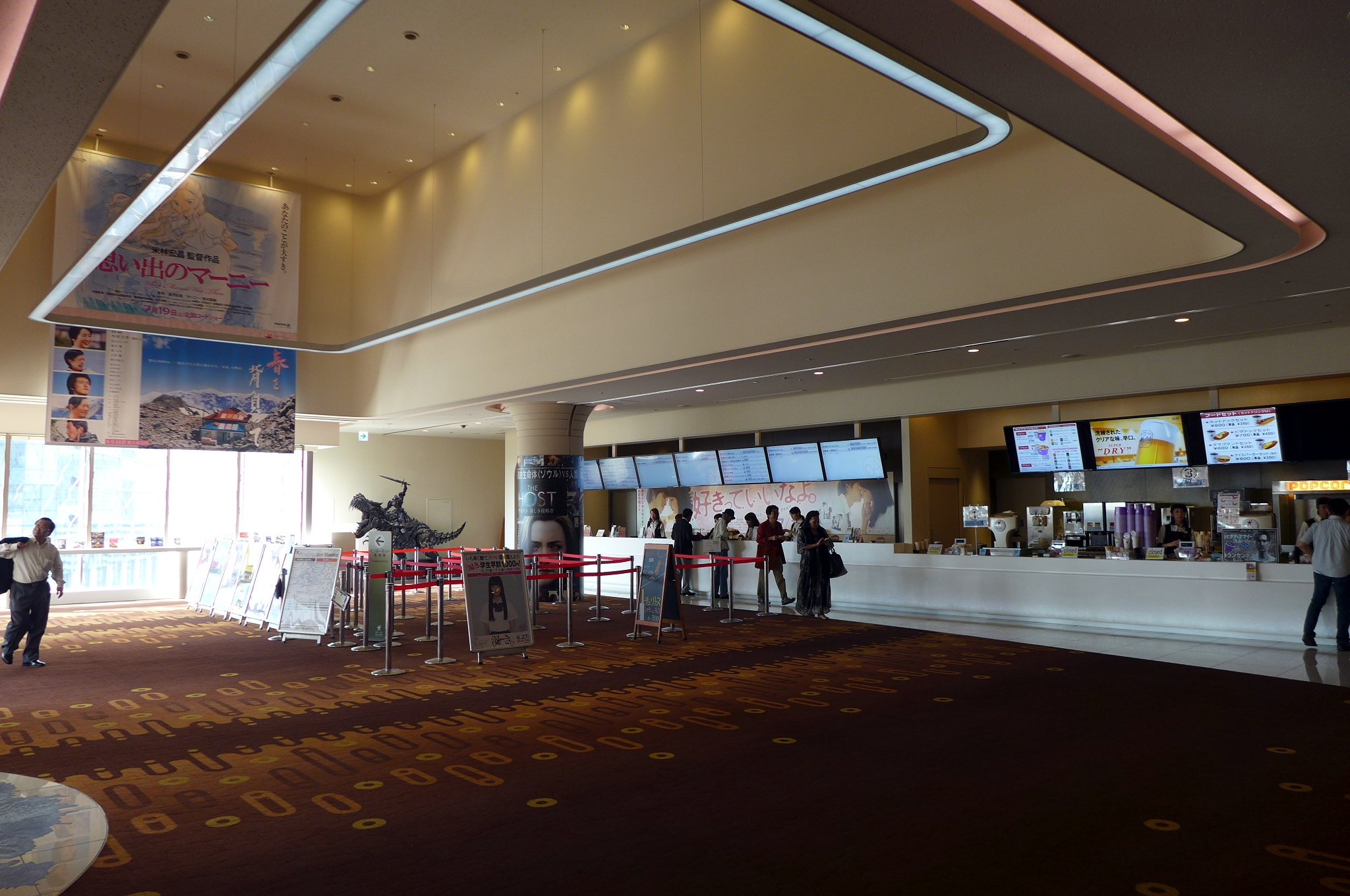 Osaka Station City Cinema